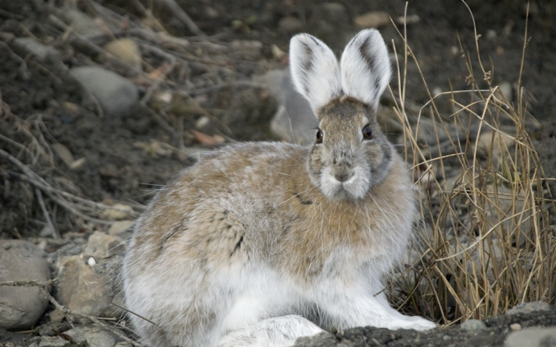 "...some brown and some white."